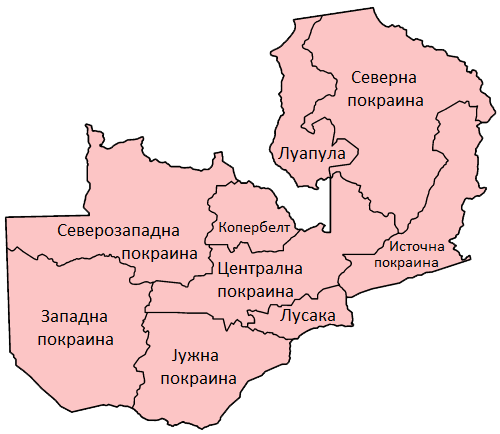 Map of the Zambian provinces in Macedonian.